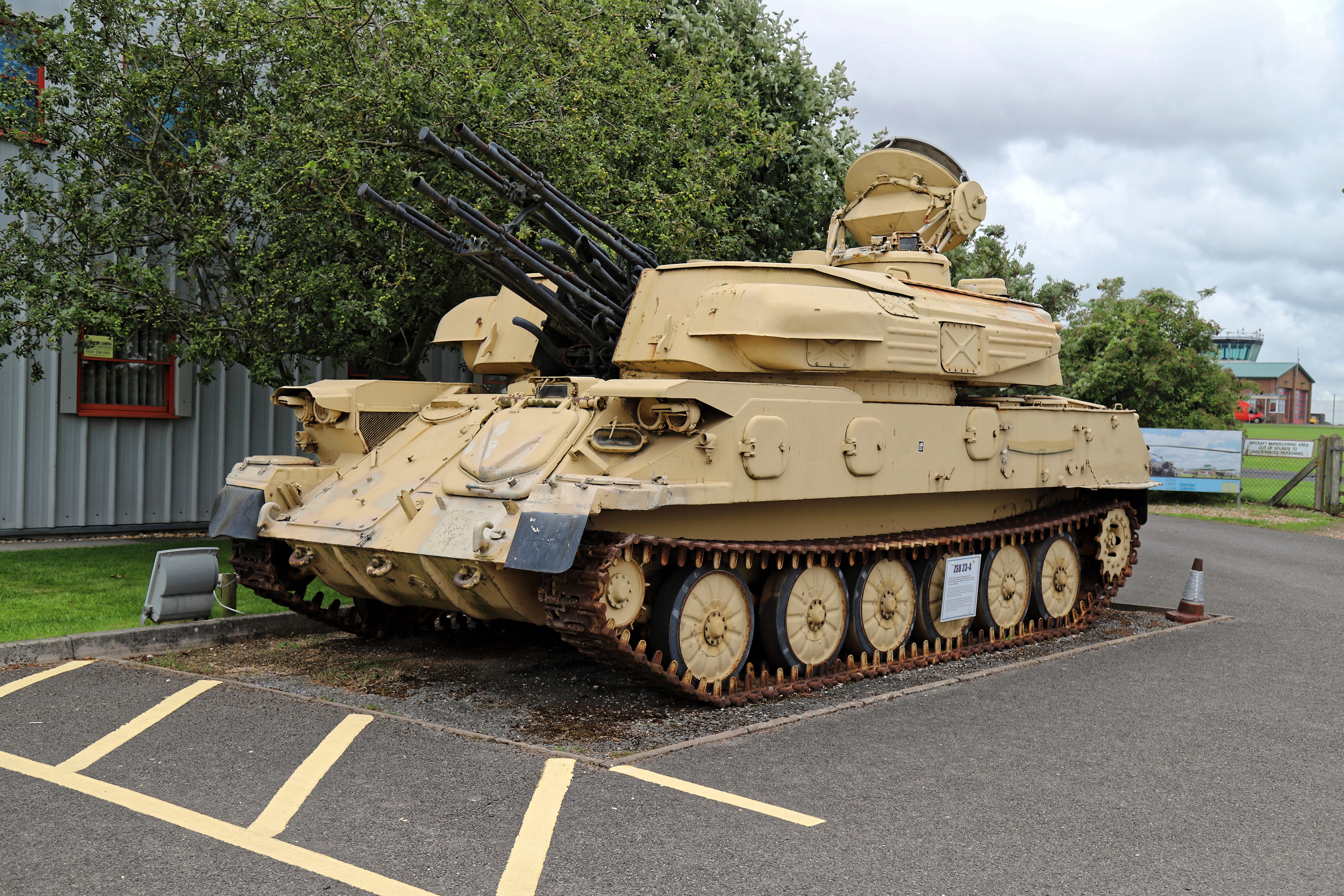 A ZSU-23-4 "Shilka" (a Soviet built self-propelled anti-aircraft gun produced between 1964 and 1982), at the Museum of Army Flying in Hampshire, England.Camera: Canon EOS 6D Mark II with Canon EF 24-105mm F4L IS USM lens.Software: RAW file lens-corrected, optimized and converted to JPEG with DxO OpticsPro, and likely further optimized and/or cropped and/or spun with Adobe Photoshop CS2.